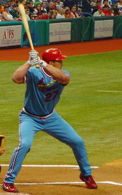 Photo of Scott Rolen originally taken by Googie man. I cropped the photo so that it would feature Rolen (the subject of the article) more prominately. 16:30, 29 October 2006 . . Darwin's Bulldog . . 408×650 (31,304 bytes)